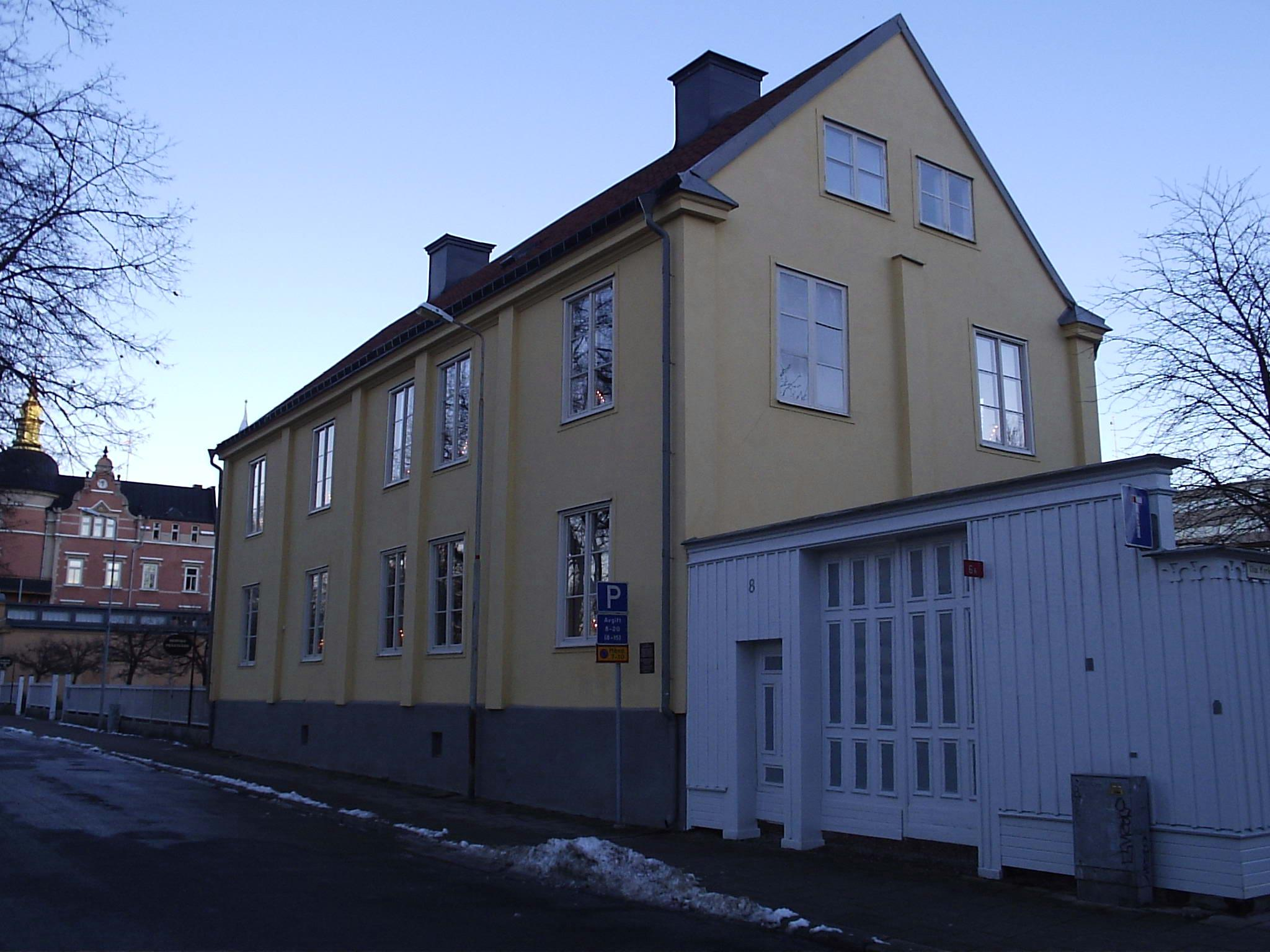 Hedvigs prästgård, Norrköping. The parsonage for the German church in Norrköping.